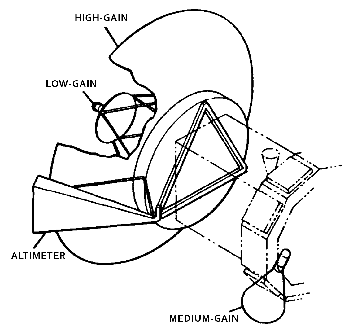 Diagram of noting the positions of the three antennas on Magellan.